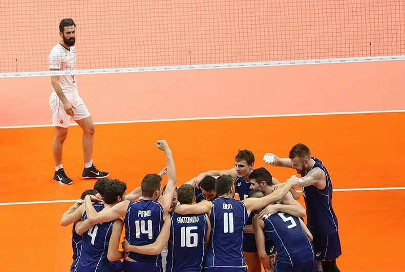 Volleyball match between national teams of Ukraine and Italy at the Olympic Games in 2016